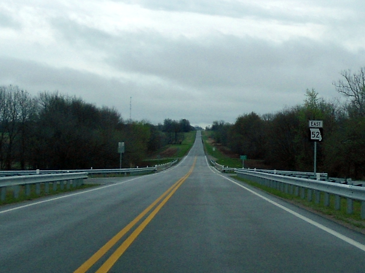 Missouri Route 52 just after breaking from a concurreny with US 71 south of Butler. Facing east